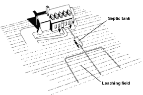 Septic Tank: Illustration shows how an underground septic tank is connected to a house and leaching field.